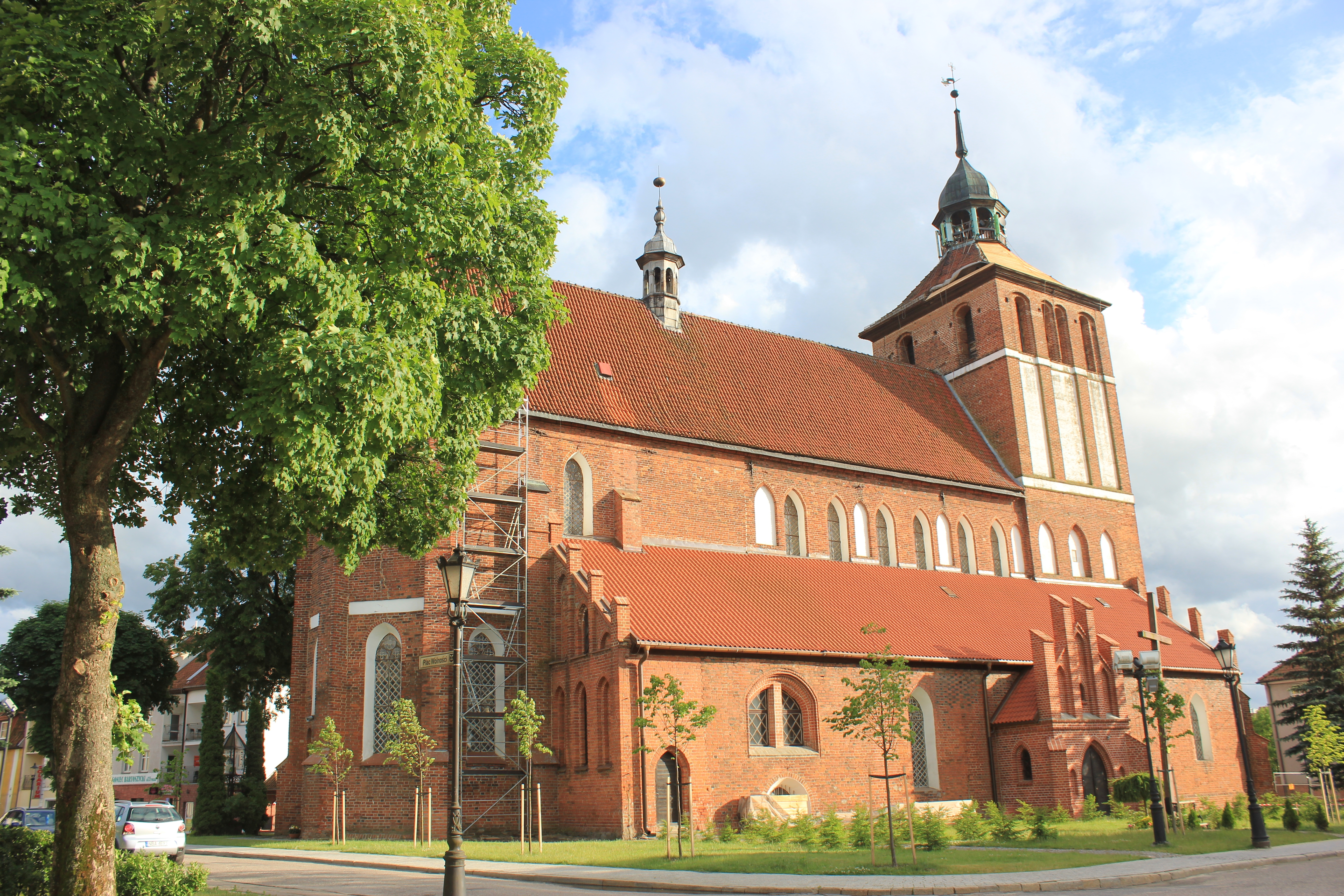 Bartoszyce - church of St. John Evangelist and Our Lady of Częstochowa